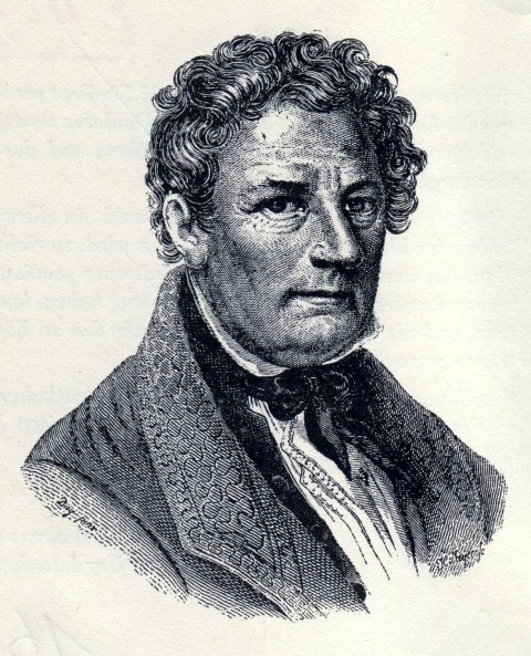 Portrait of Felix Maria Diogg